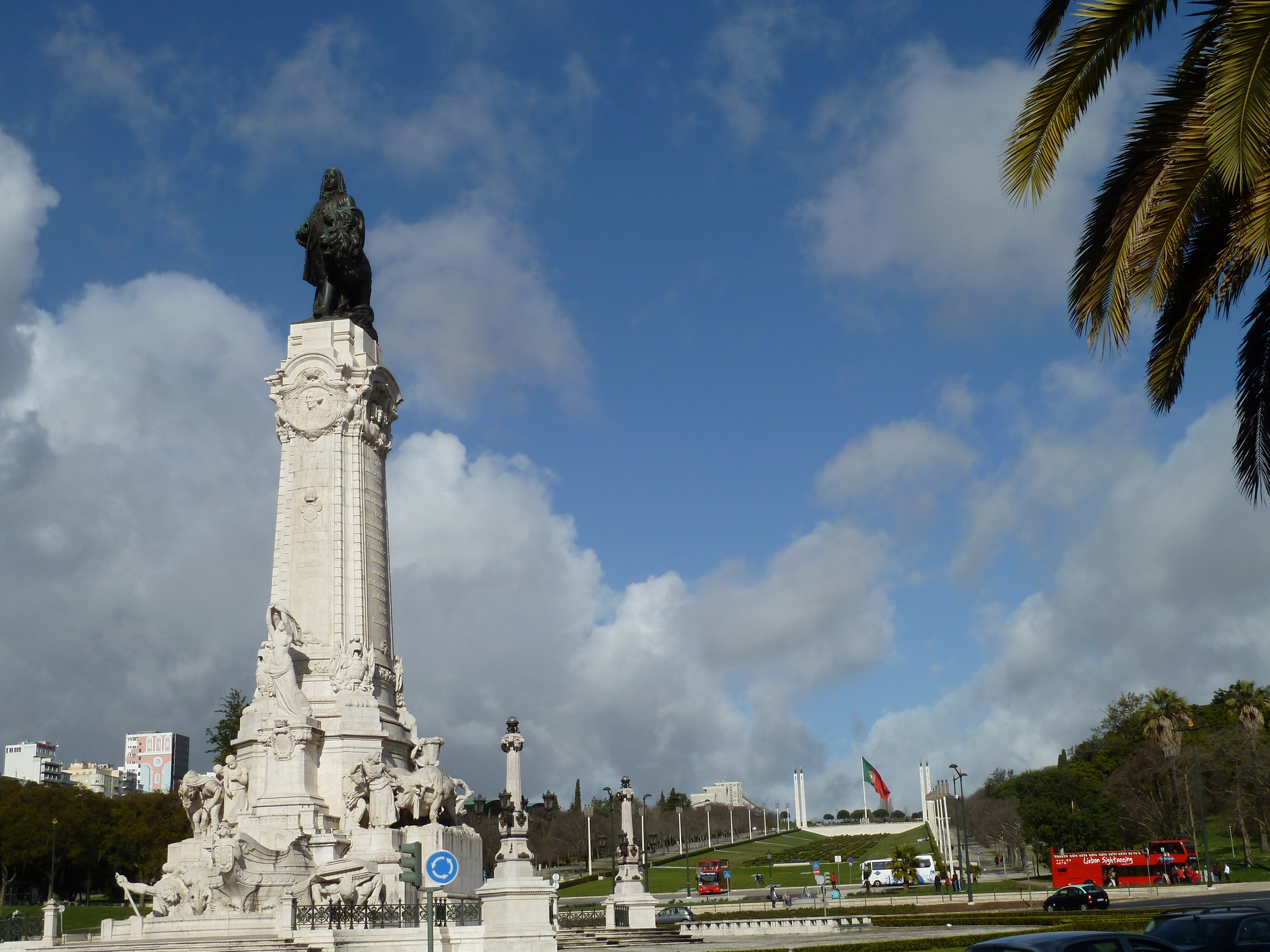 Praça do Marquês de Pombal (arquês de Pombal Square) in Lisbon